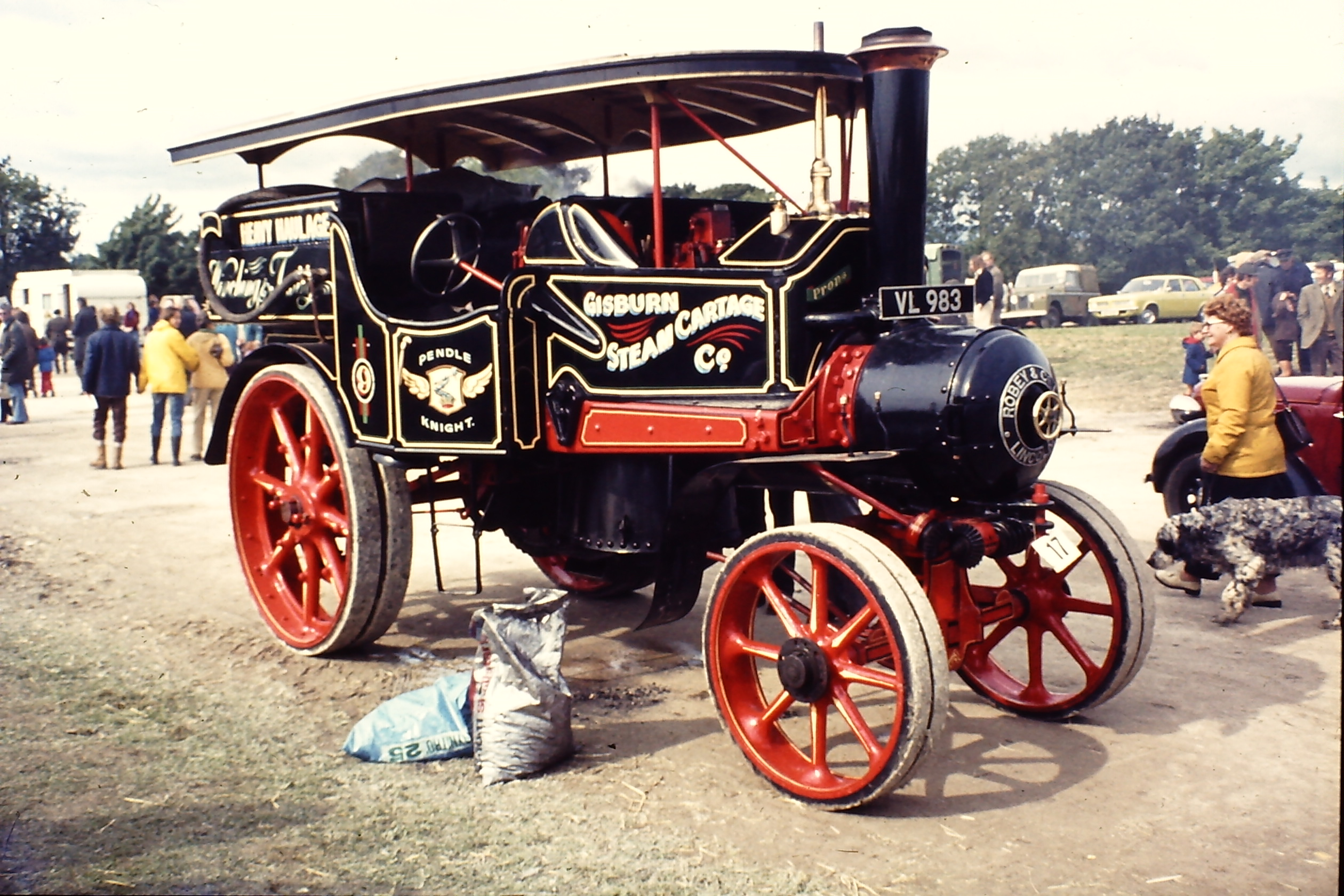 Robey 'Express' steam tractor with the Robey pistol boiler. Steam rally, North West England (Kendal?), 1970s. Here named 'Pendle Knight', as part of the Tom Varley collection. Now re-named as 'Kernow Knight' [1]